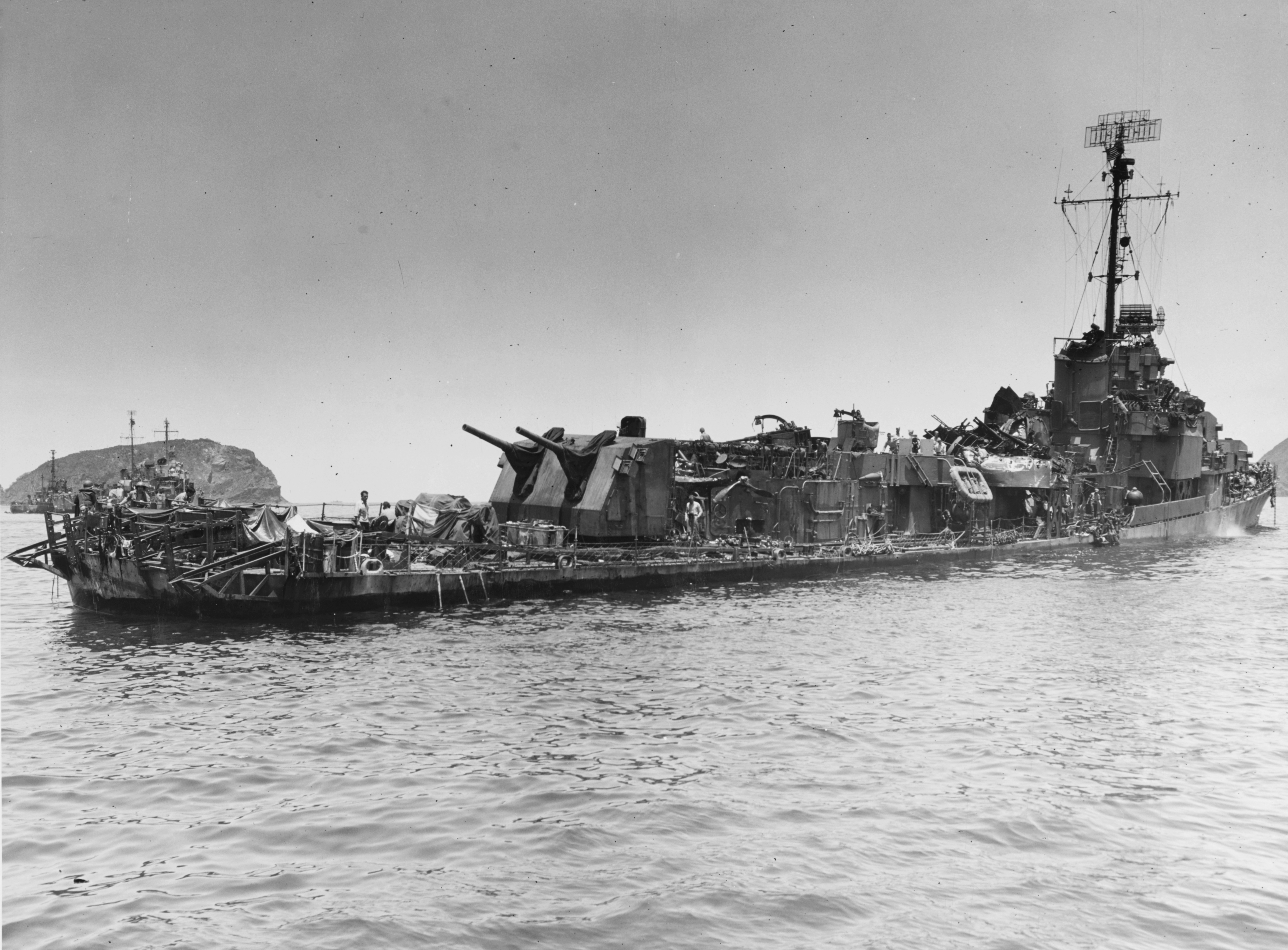 The U.S. Navy destroyer-minelayer USS Aaron Ward (DM-34) in the Kerama Retto anchorage, 5 May 1945, showing damage received when she was hit by several Japanese suicide planes off Okinawa on 3 May. Note the three-bladed aircraft propeller lodged in her superstructure, just forward of the after 5"/38 twin gun mount.